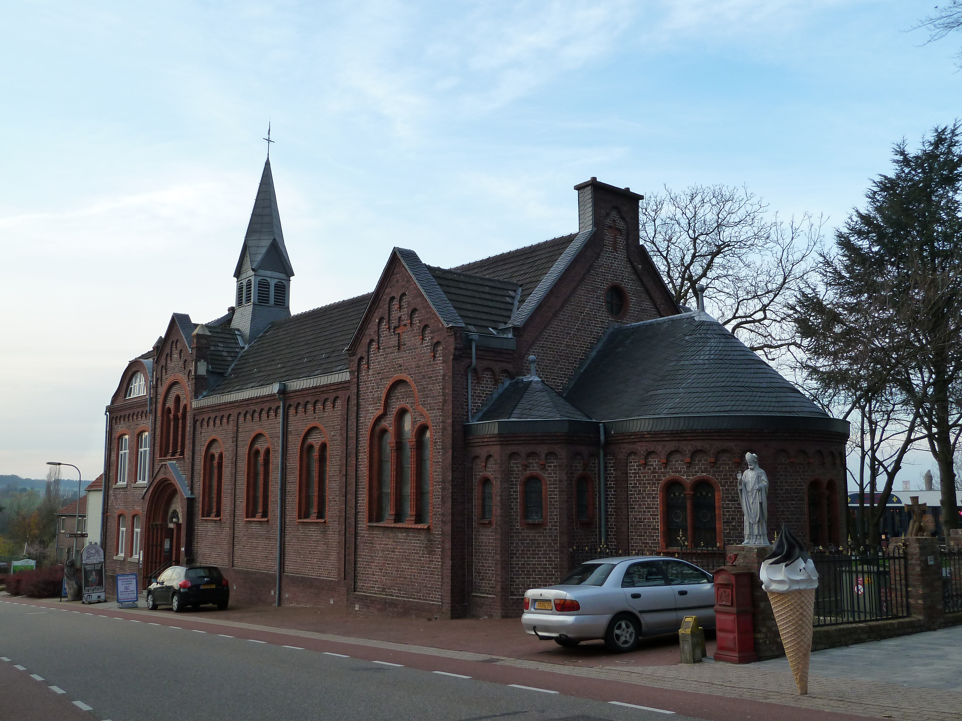 Eschberg 7, Vaals, Limburg, the Netherlands